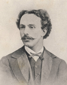 Franco Faccio when composing 'Amleto'